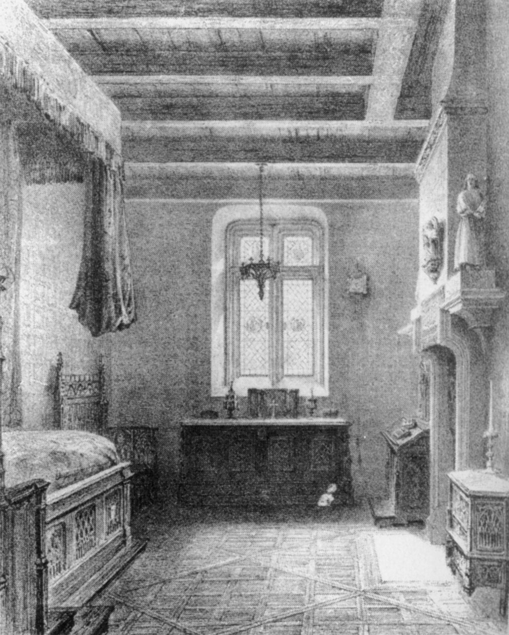 Interior of the bedchamber of Henri Duponchel at the Opéra (Salle Le Peletier), designed by Jean-Jacques Feuchère in "troubadour" style